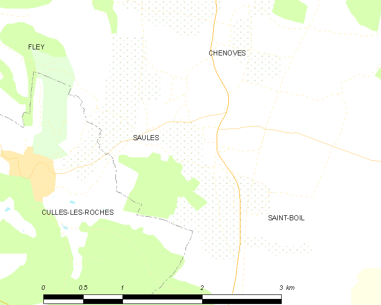 Map of French municipality